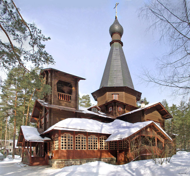 Kazanskaya chearch in Virica